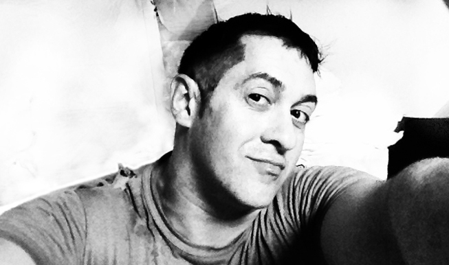 Black and white self portrait of expatriated American artist Adam Cooley